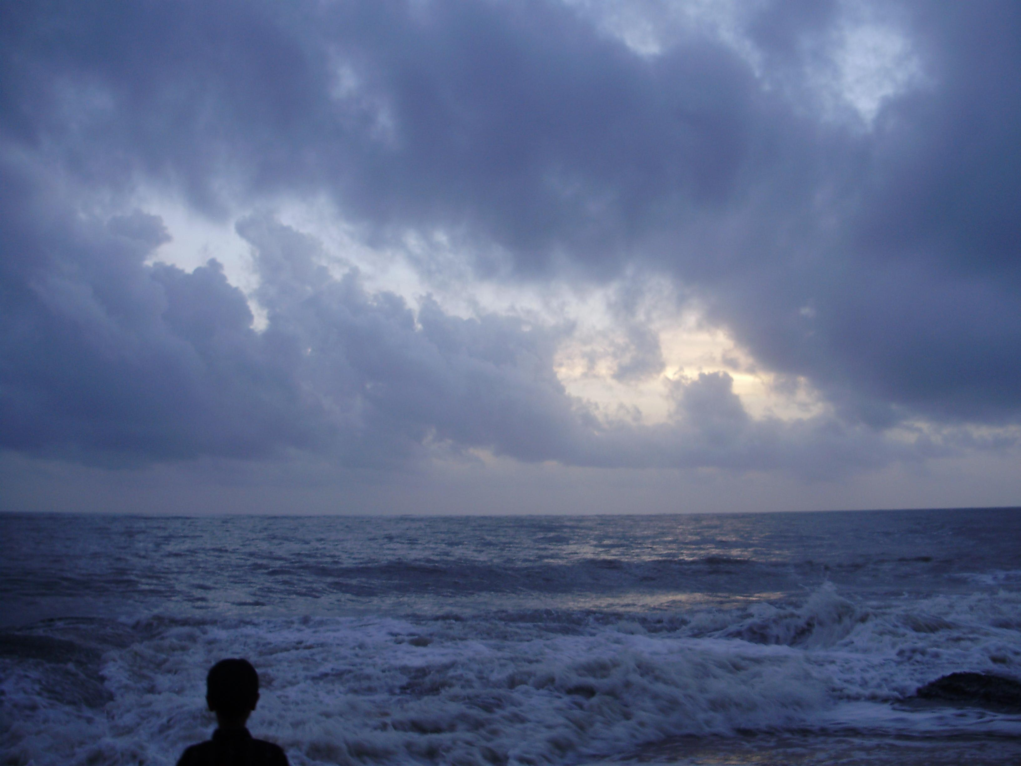 kappad beach in calicut